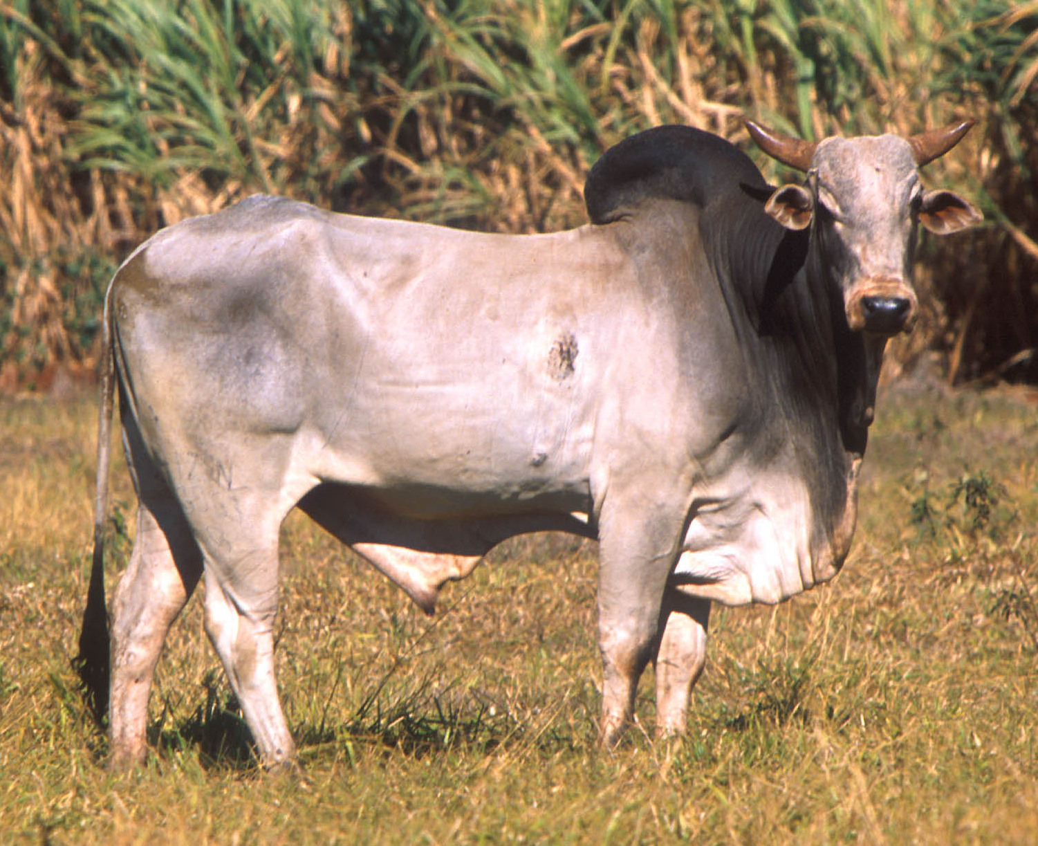 Original caption: "Cattle in Brazil, like this Zebu bull, represent a different gene pool from U.S. cattle and could help scientists locate genes for desirable traits like tick resistance and heat tolerance."